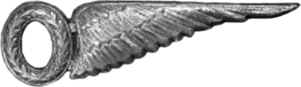 United States Army Balloon Observer Wings from World War I. Made with Photoshop.